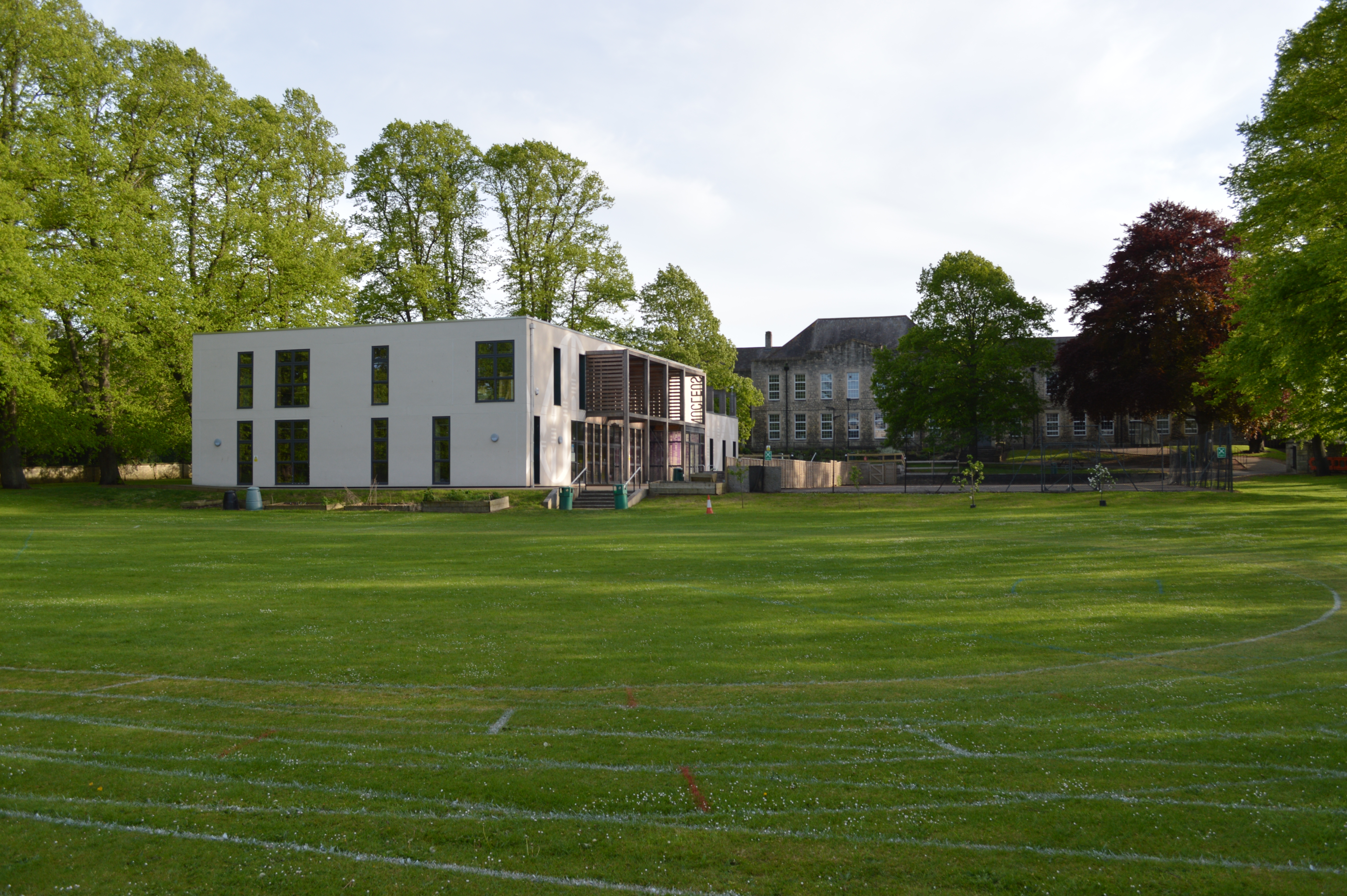 Hayesfield Girls' School, Bath, lower school field, from the Holiday Inn car park north of the school.The new Nucleus science block can be seen, with the fomer-barracks main building behind.